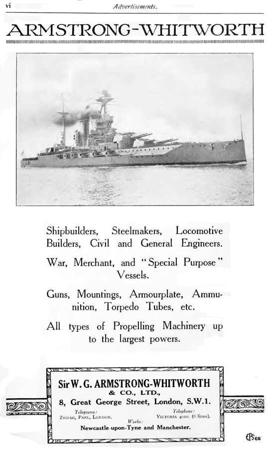 Armstrong Whitworth advertisement showing British battleship HMS Malaya.